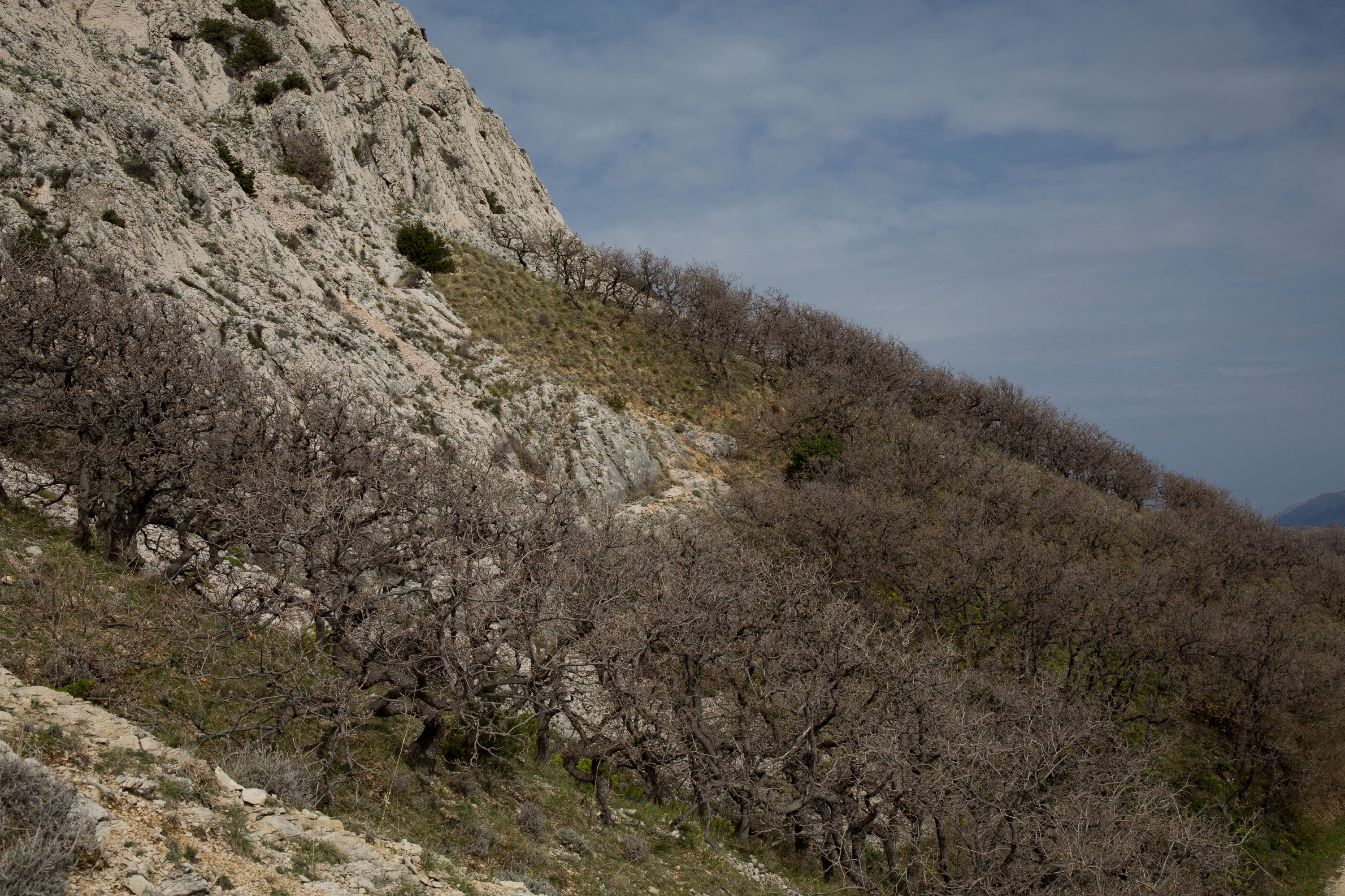 Protected oak area Dubrava Hanzine, island of Pag, Croatia